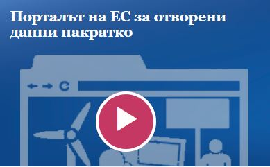 Screenshot from EUODP